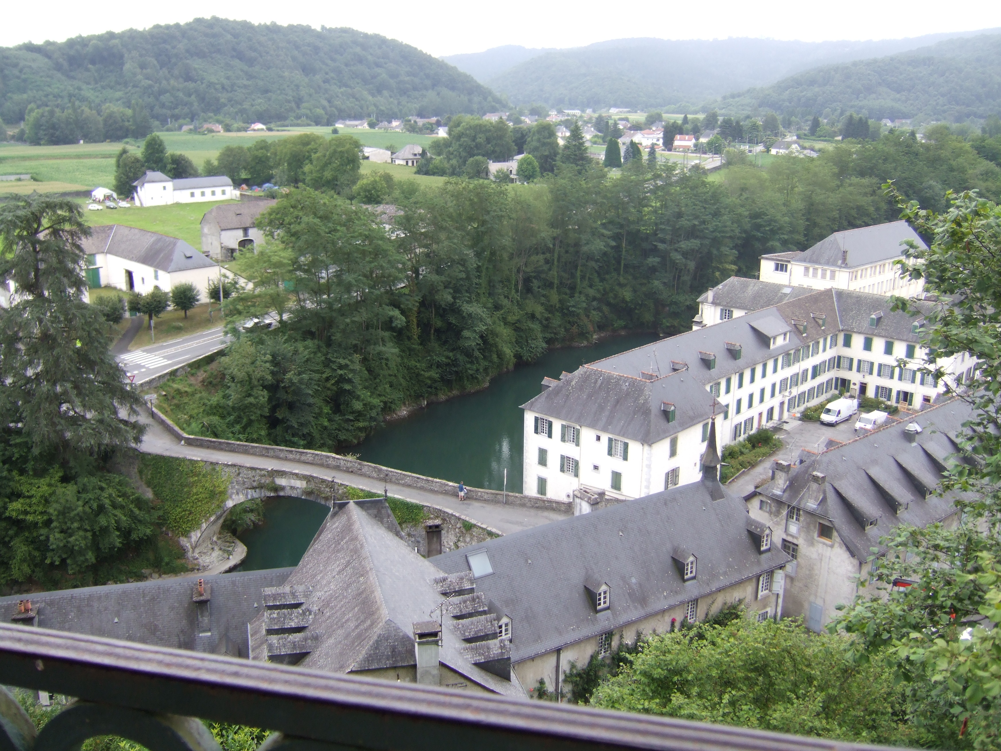 Sanctuary of Betharram (France)